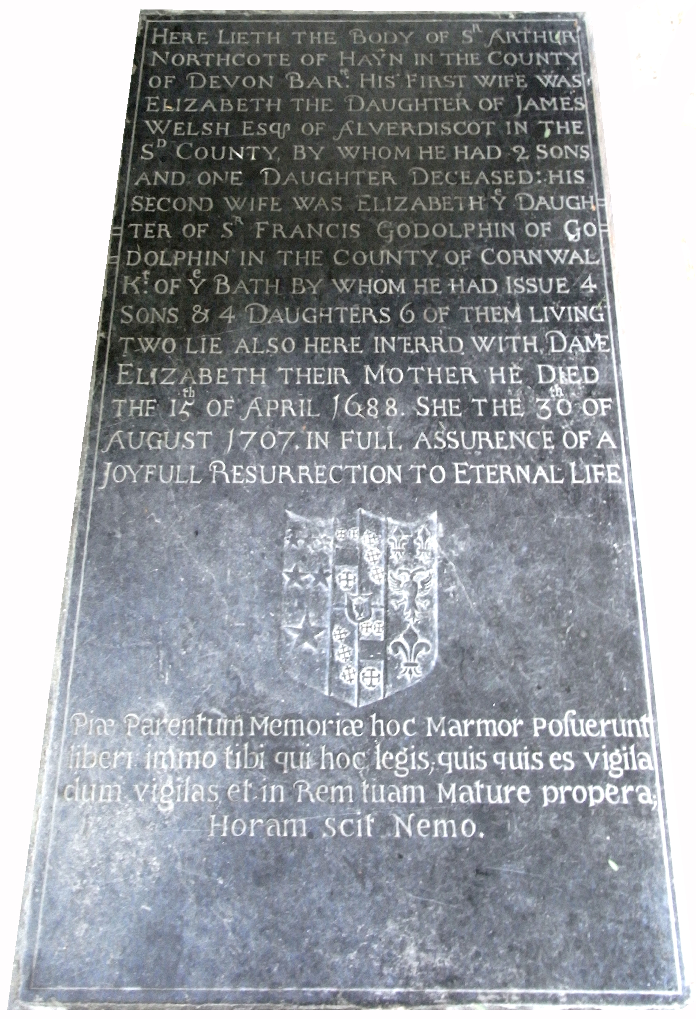 Ledger stone of Sir Arthur Northcote, 2nd Baronet (1628-1688), floor of south chancel aisle, King's Nympton Church, Devon. Text: "Here lieth the body of Sr. Arthur Northcote of Hayn in the county of Devon, Bar.tt. His first wife was Elizabeth the daughter of James Welsh Esq.r. of Alverdiscot in the sd. county by whom he had 2 sons and one daughter deceased; his second wife was Elizabeth ye daughter of Sr. Francis Godolphin in the county of Cornwal, Kt. of ye Bath, by whom he had issue 4 sons & 4 daughters, 6 of them living, two lie also here interr'd with Dame Elizabeth their mother. He died the 15th of April 1688, she the 30th of August 1707 in full assurence of a joyfull resurrection to eternal life." Below is an heraldic escutcheon with the arms of Northcote in centre, impaling dexter: Welsh (six mullets 3:2:1), sinister: Godolphin (an eagle displayed double headed between three fleurs-de-lis) overall in an inescutcheon the Red Hand of Ulster. Underneath: "Piae parentum memoriae hoc marmor posuerunt liberi immo tibi qui hoc legis quis quis es vigilia dum vigilas et in rem tuam mature propera horam scit nemo"